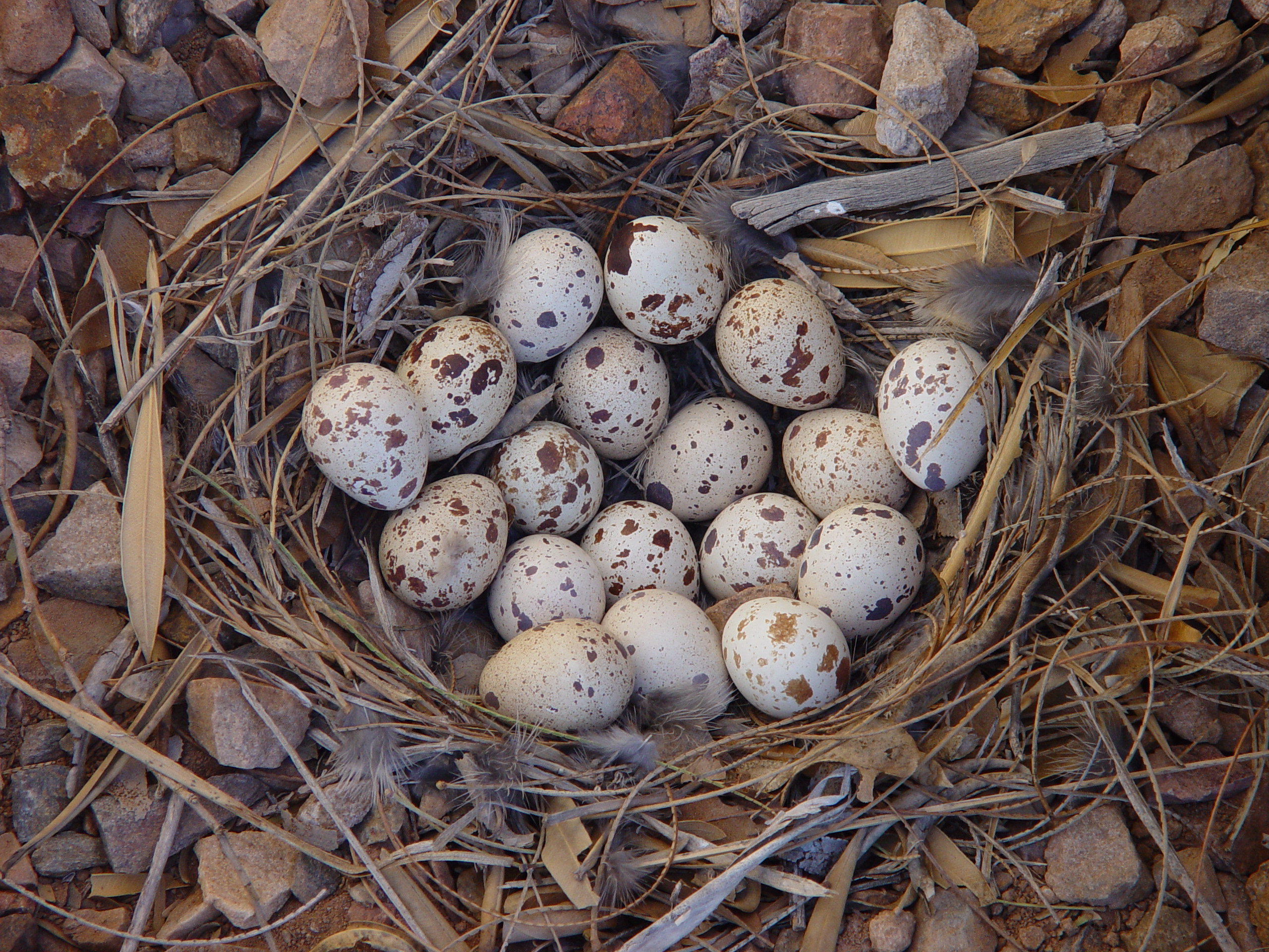 Gambel's Quail nest with 18 eggs, San Tan Valley, Az, March 31